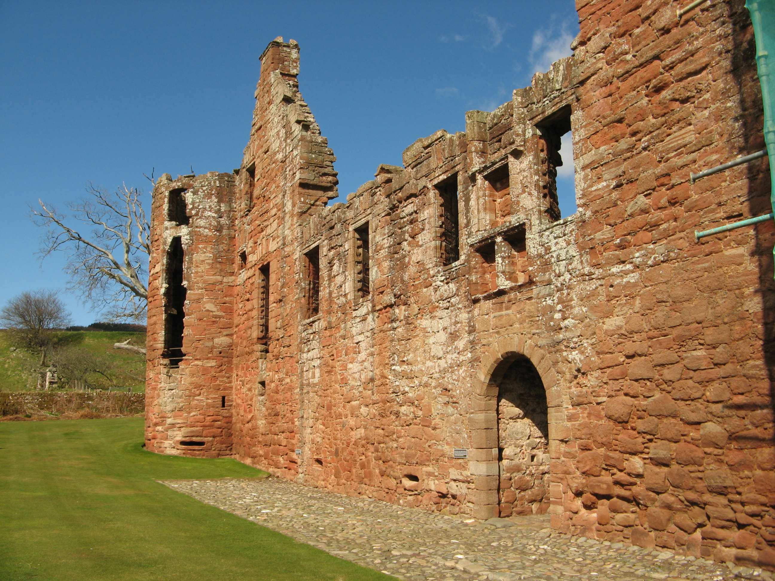 Edzell Castle, Angus, Scotland. West wall of the west range, looking north.